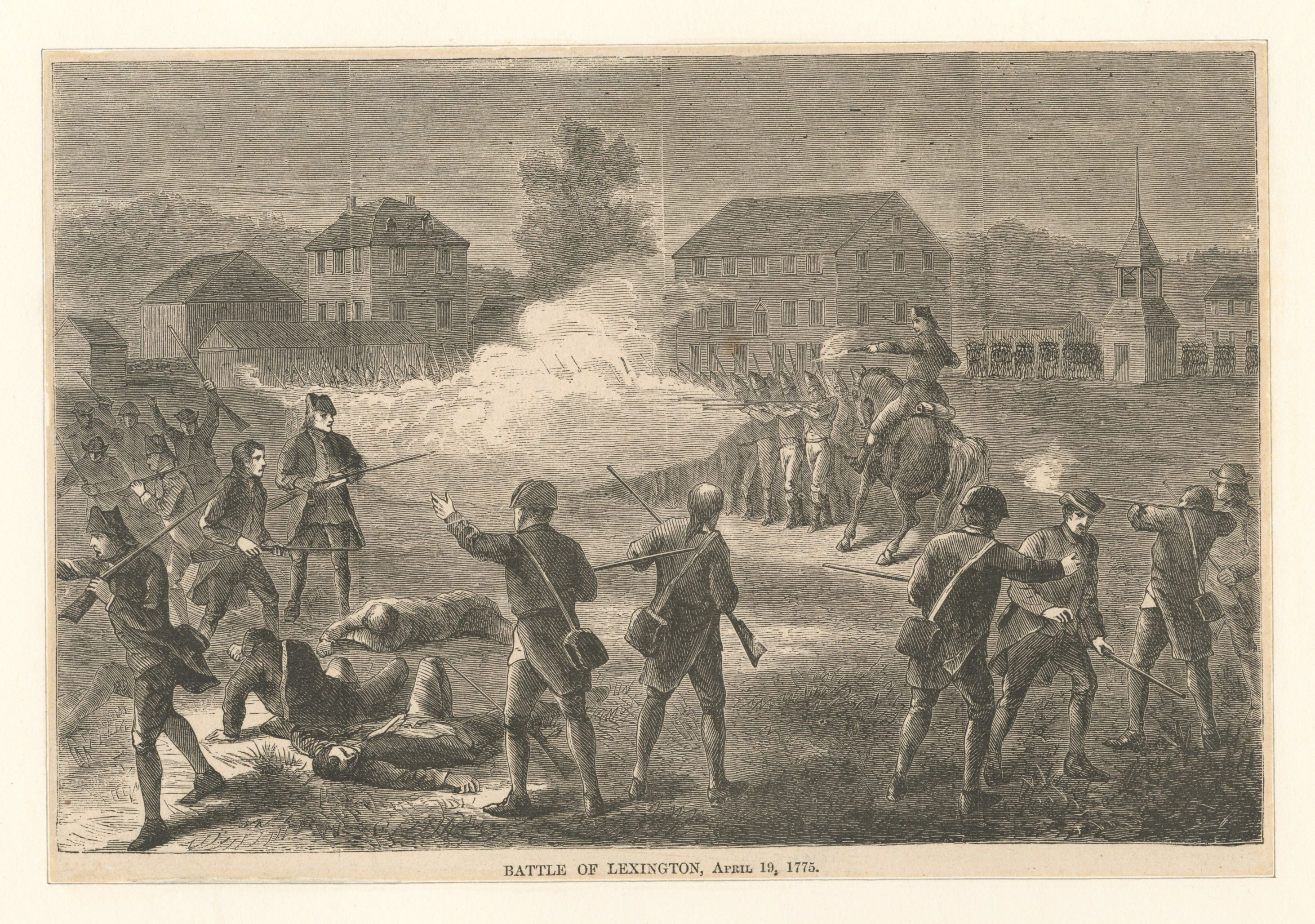 Printmakers include Henry Bryan Hall and Luigi Schiavonetti. EM8524